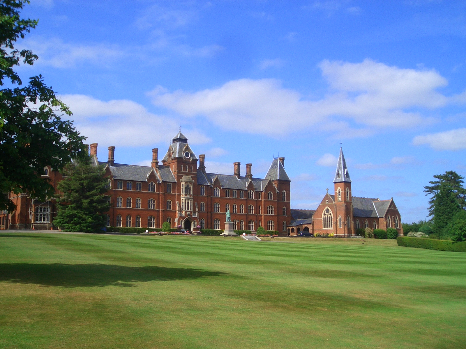 College grounds of Framlingham College, in Woodbridge, Suffolk.